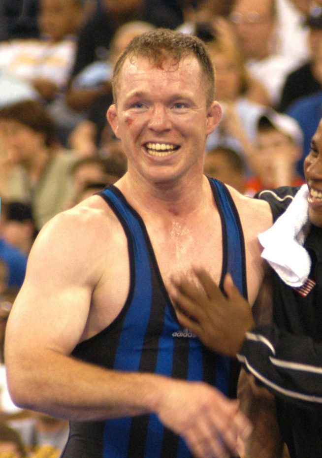 U.S. Army World Class Athlete Program wrestling coach Shon Lewis (right), seen here celebrating Oscar Wood's berth in the 2004 Olympic Games, will again serve Team USA at the 2012 Olympic Games in London. U.S. Army photo by Tim Hipps, IMCOM Public Affairs